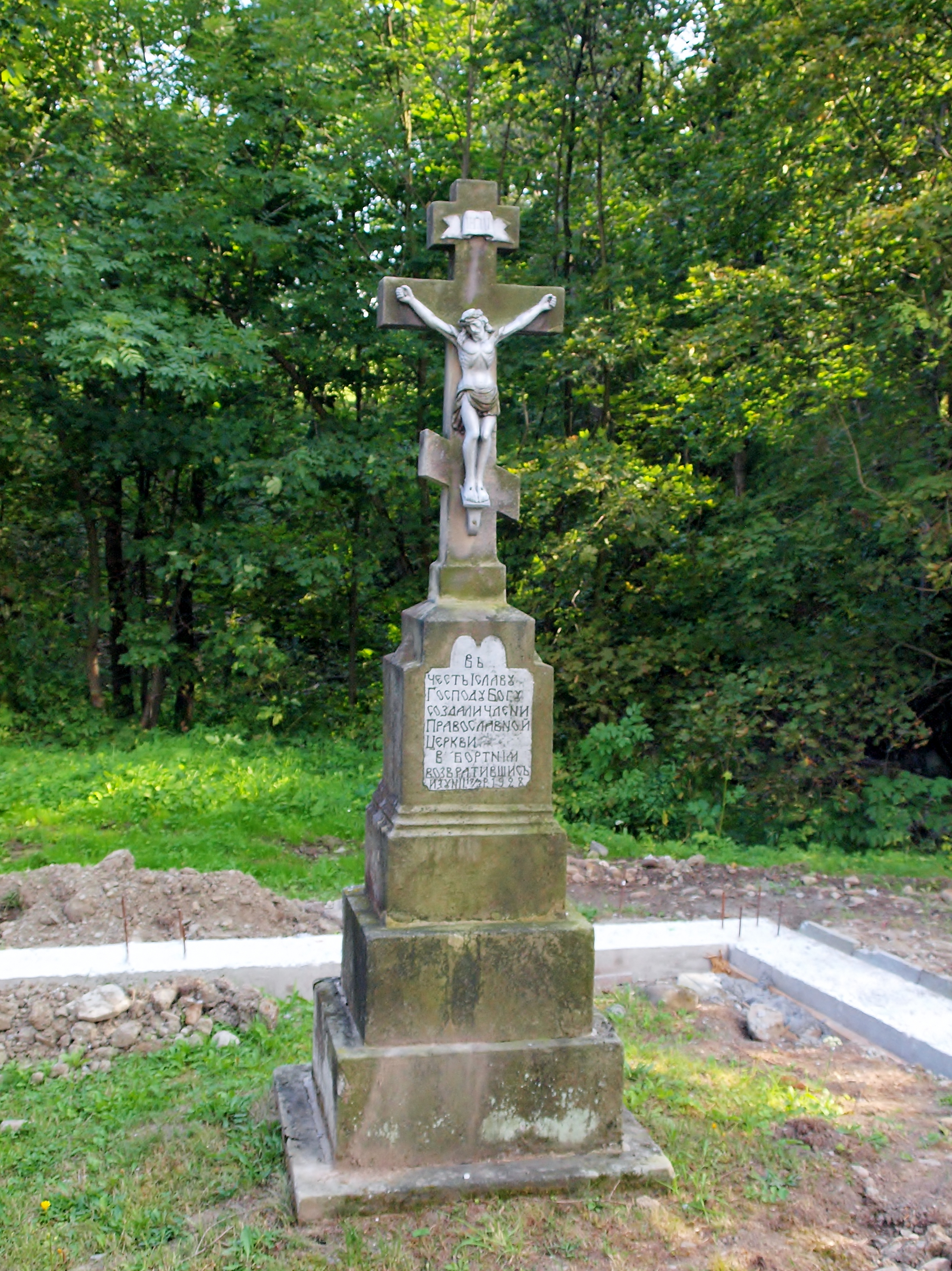 Bartne - a Lemko cross of thanksgiving: “For honor and glory to God. Created by members of the Orthodox Church in Bartne who returned from Uniate Church. 17 March 1928”